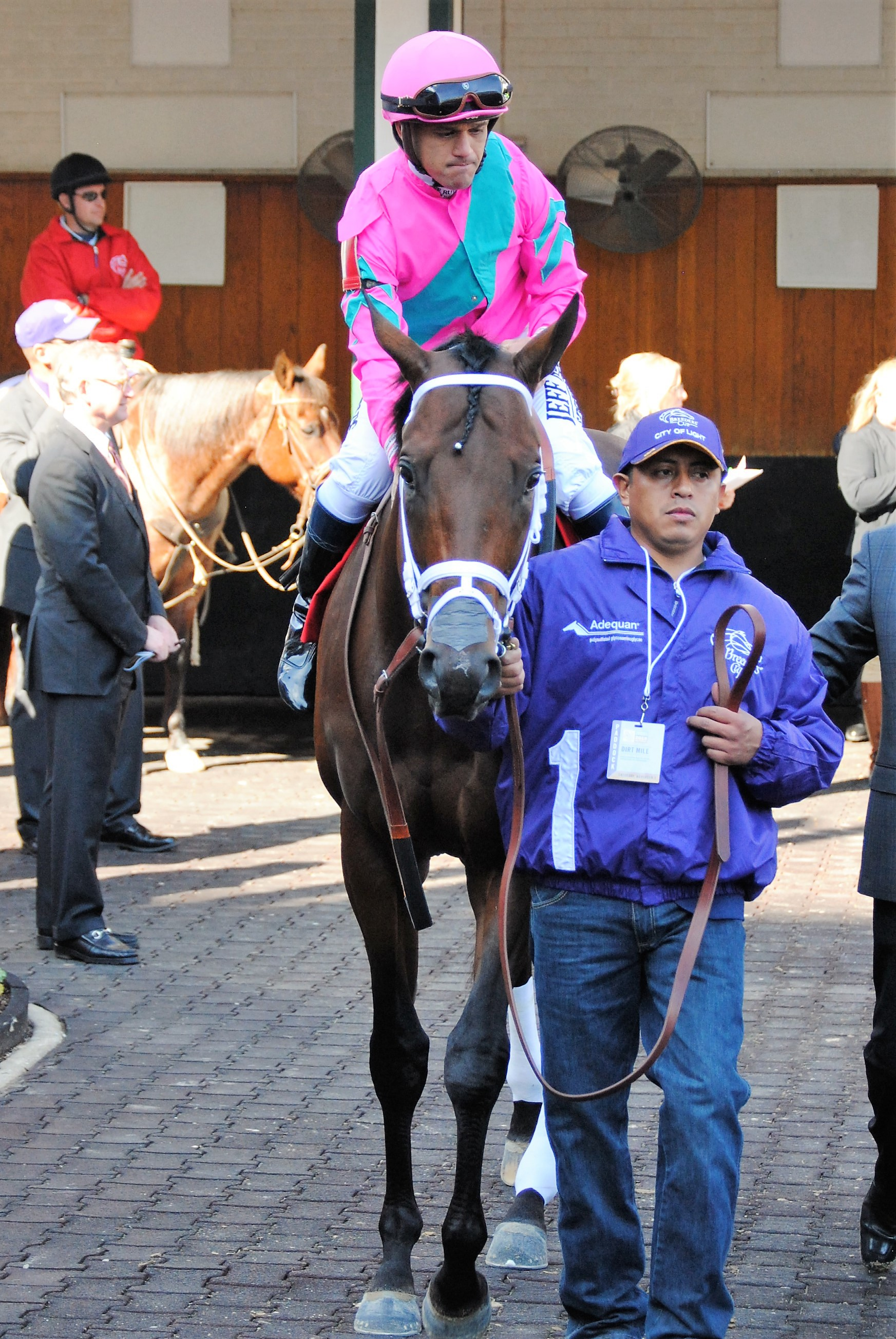 City of Light and Javier Castellano prior to winning the 2018 Breeders' Cup Dirt Mile